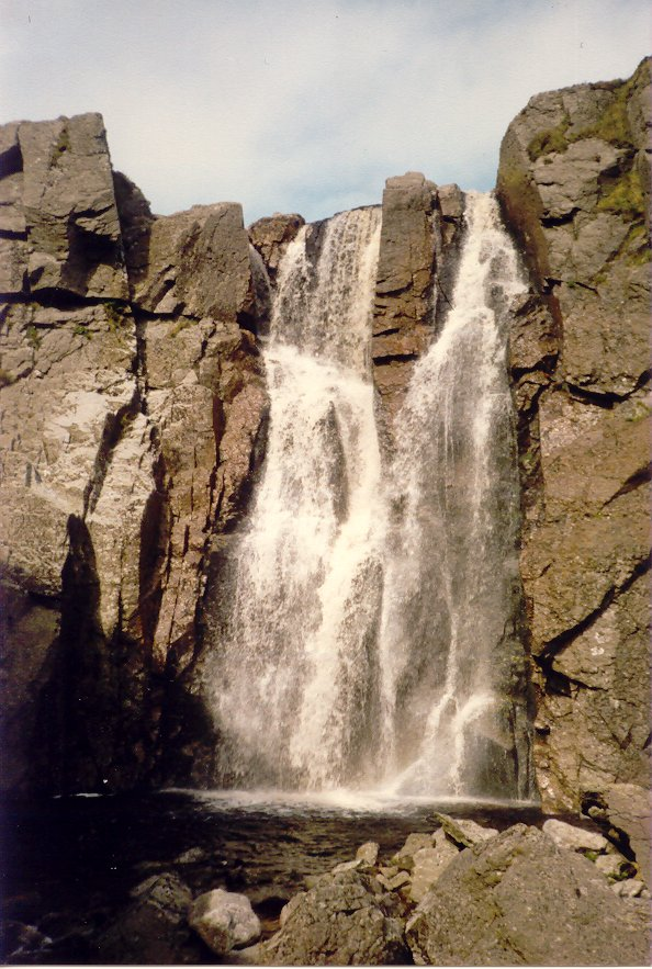 Scanned from a print photographed by me in the early nineteen-eighties.